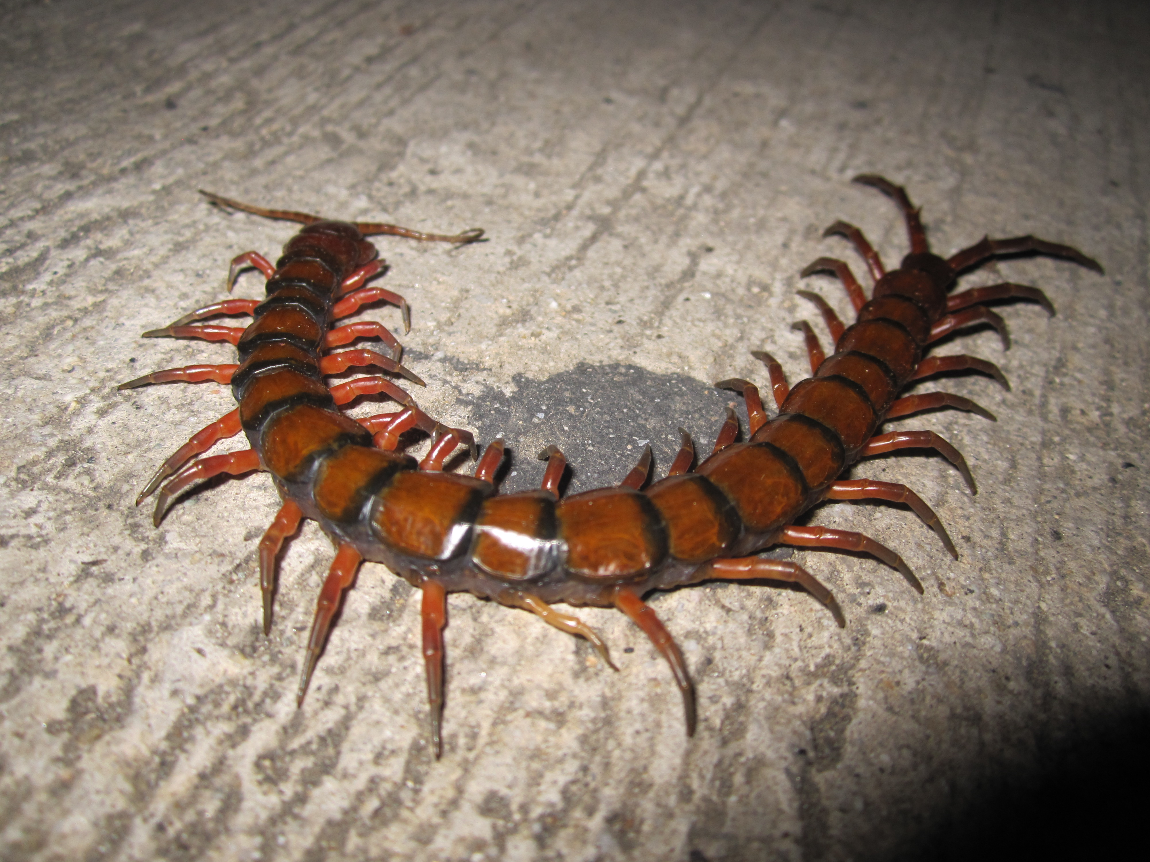 Puerto Rican Giant Centipede, Scolopendra gigantea; Vieques, Puerto Rico